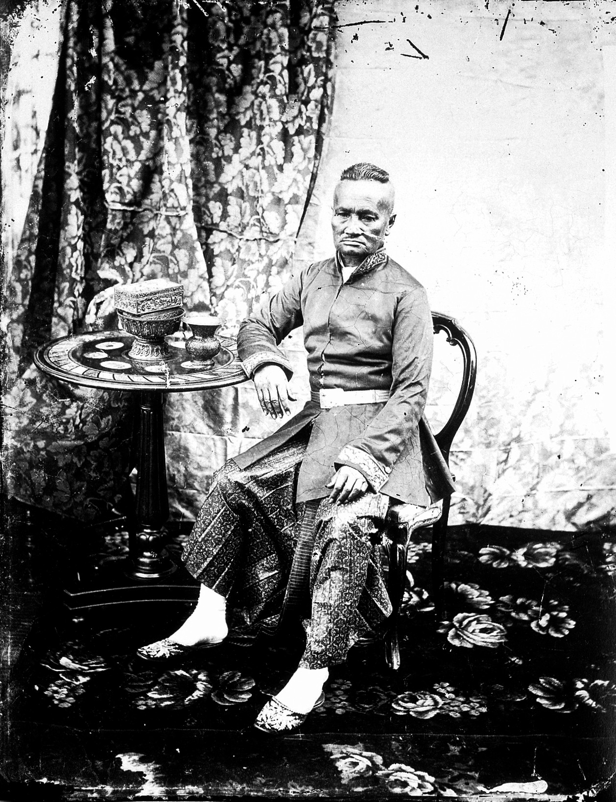 Prime Minister in 1865, the late Kralahom, Bangkok, Siam Iconographic Collections Keywords: John Thomson; Siam (Thailand); John Thomson